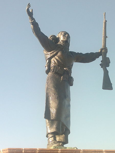 The Statue of Nene Hatun, (1857 – 22 May 1955) was a Turkish folk heroine, who at her age of twenty showed bravery during the recapture of Fort Aziziye in Erzurum from Russian forces at the start of the Russo-Turkish War of 1877–1878